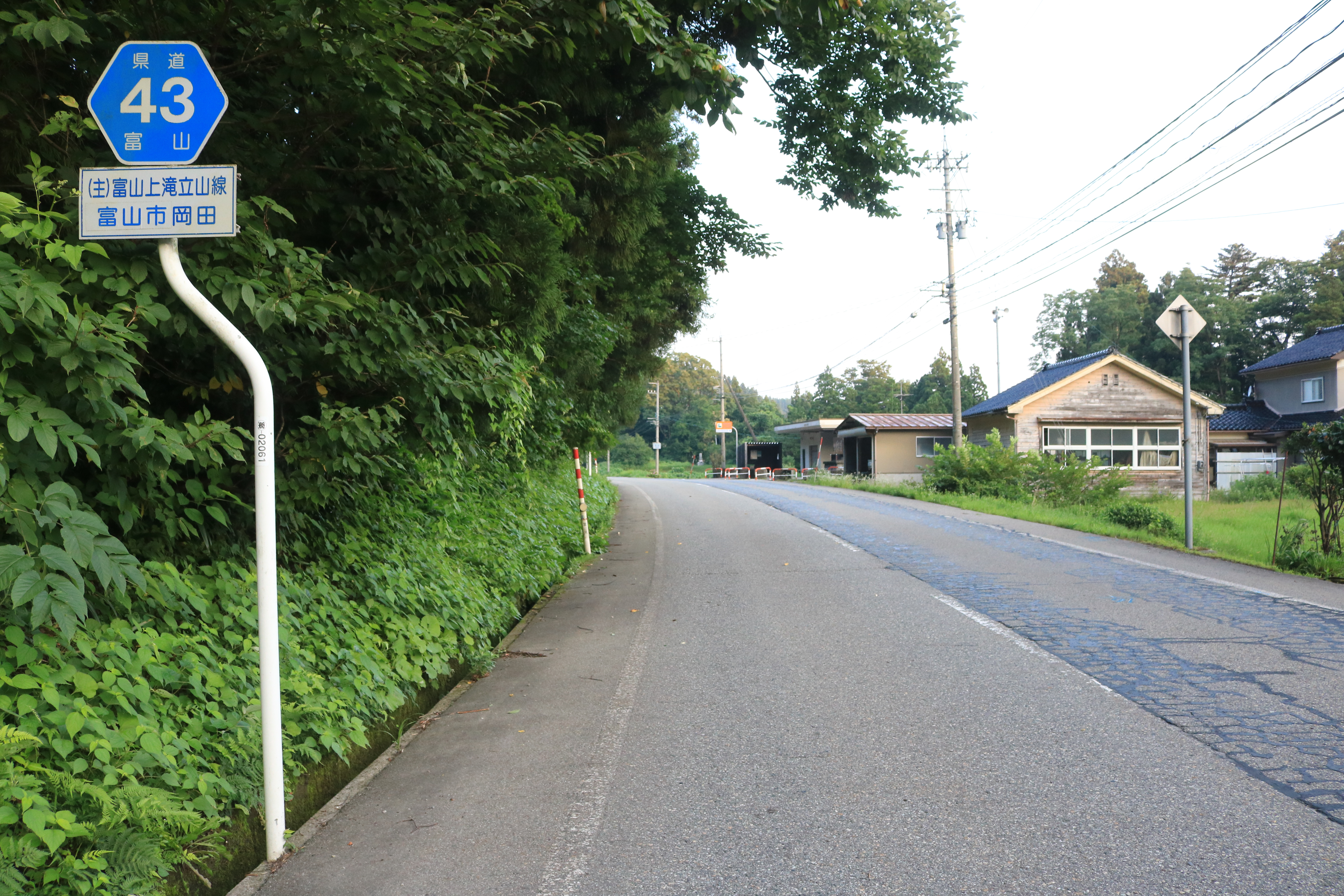 Toyama Prefectural Road Route 43 in Okada, Toyama City, Toyama Prefecture, Japan.